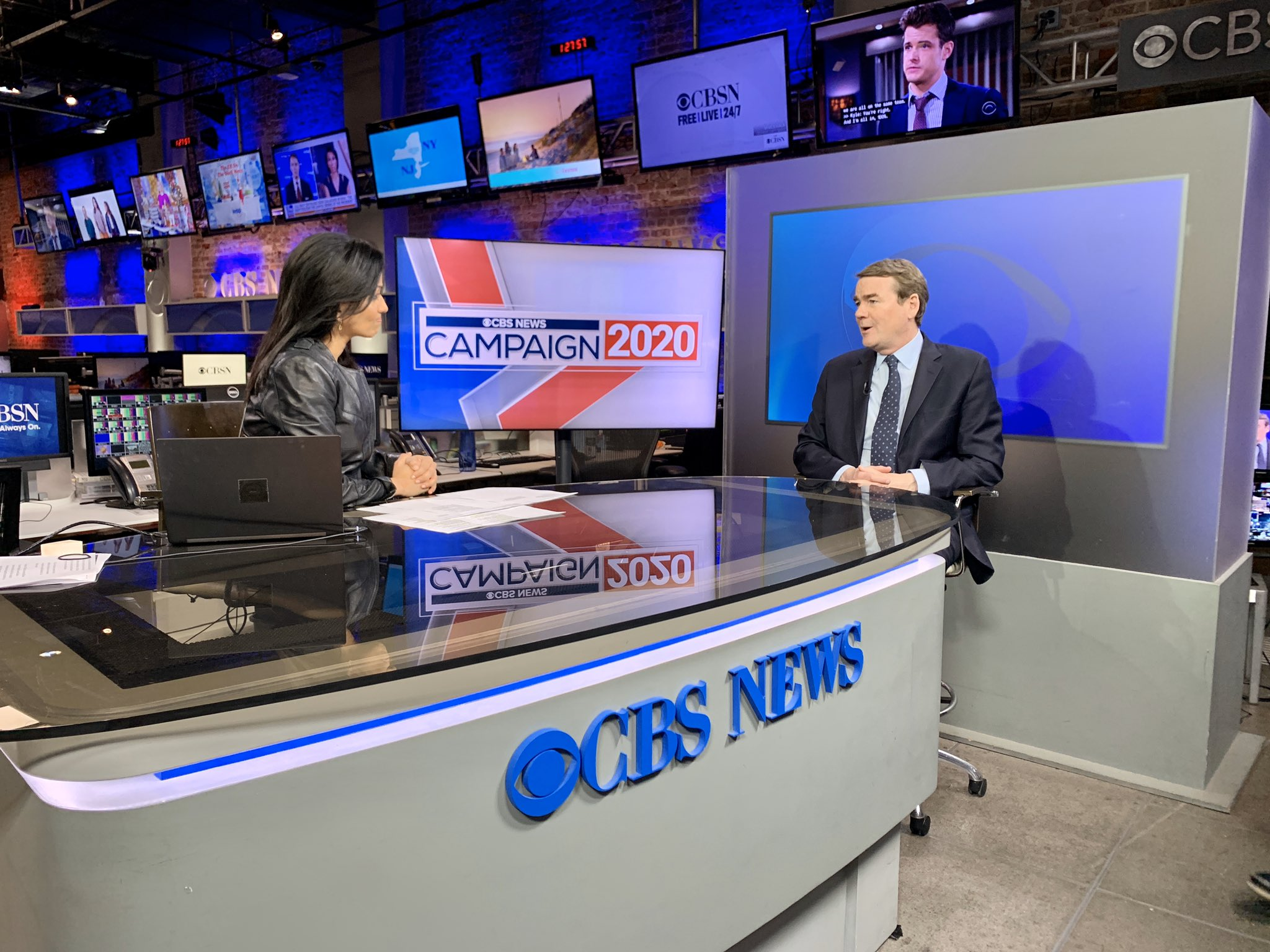 Live now with @reenaninan — tune in to hear the latest on the impeachment process and 2020 campaign trail